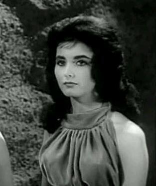 Dolores Faith screenshot